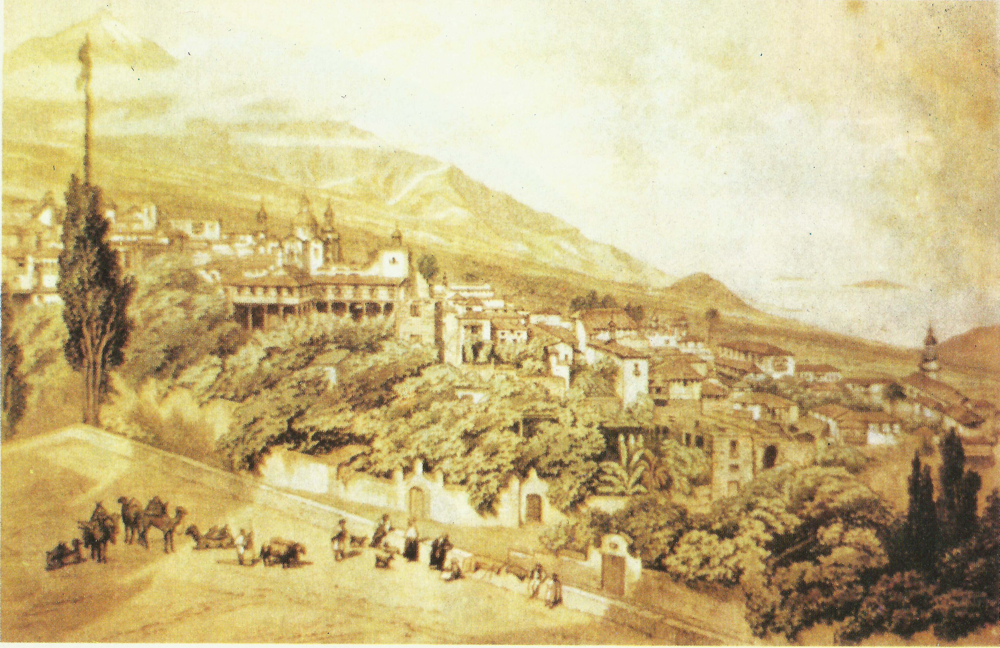 Watercolour of Elizabeth Murray. Reproduced in her work Sixteen Years of an Artist's Life in Morocco, Spain and the Canary Islands.